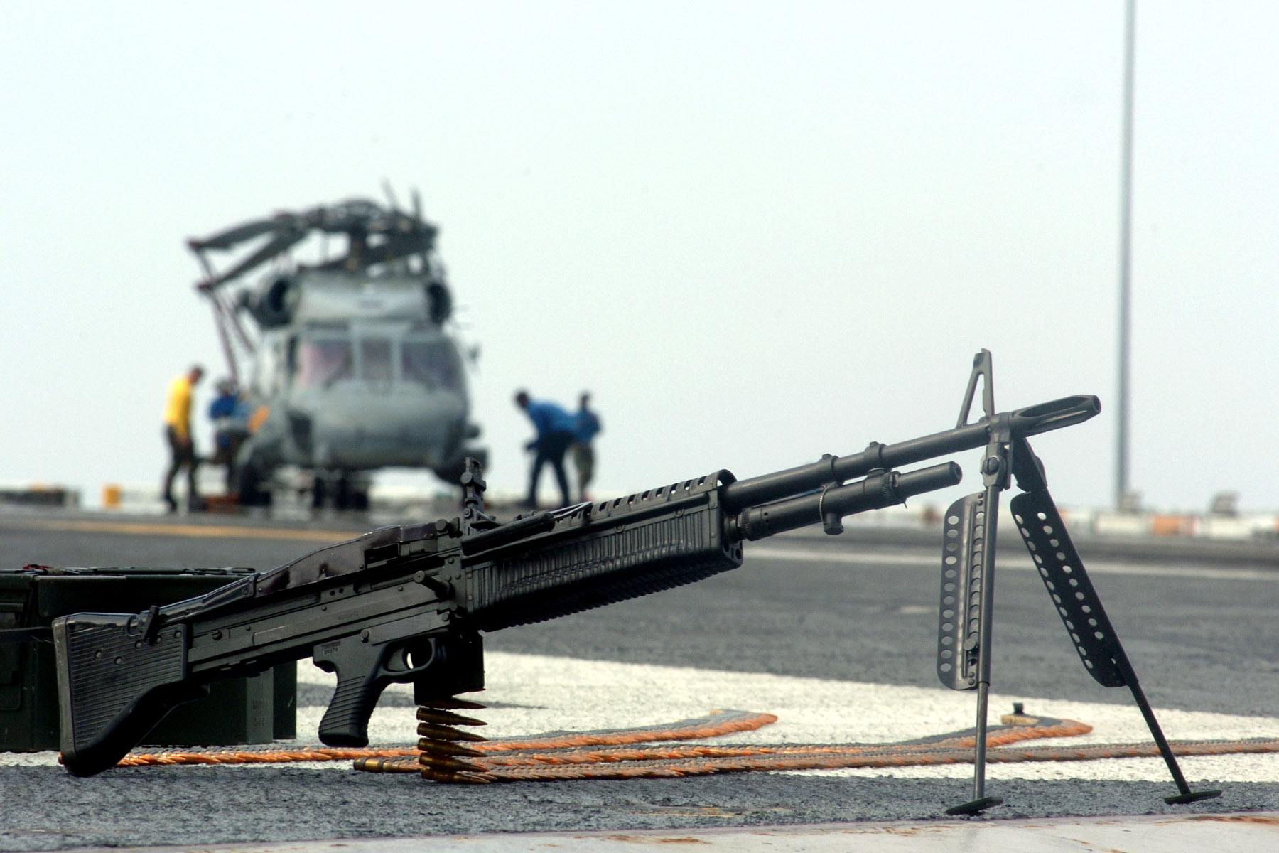 M60 machine gun - 060920-N-5248R-002 Atlantic Ocean (Sept. 20, 2006) - Crew members prepare for a live fire exercise on the flight deck aboard the Nimitz-class aircraft carrier USS Theodore Roosevelt (CVN 71). Roosevelt is currently underway maintaining qualifications as part of the fleet response plan. U.S. Navy photo by Mass Communication Specialist Seaman Sheldon Rowley (RELEASED)